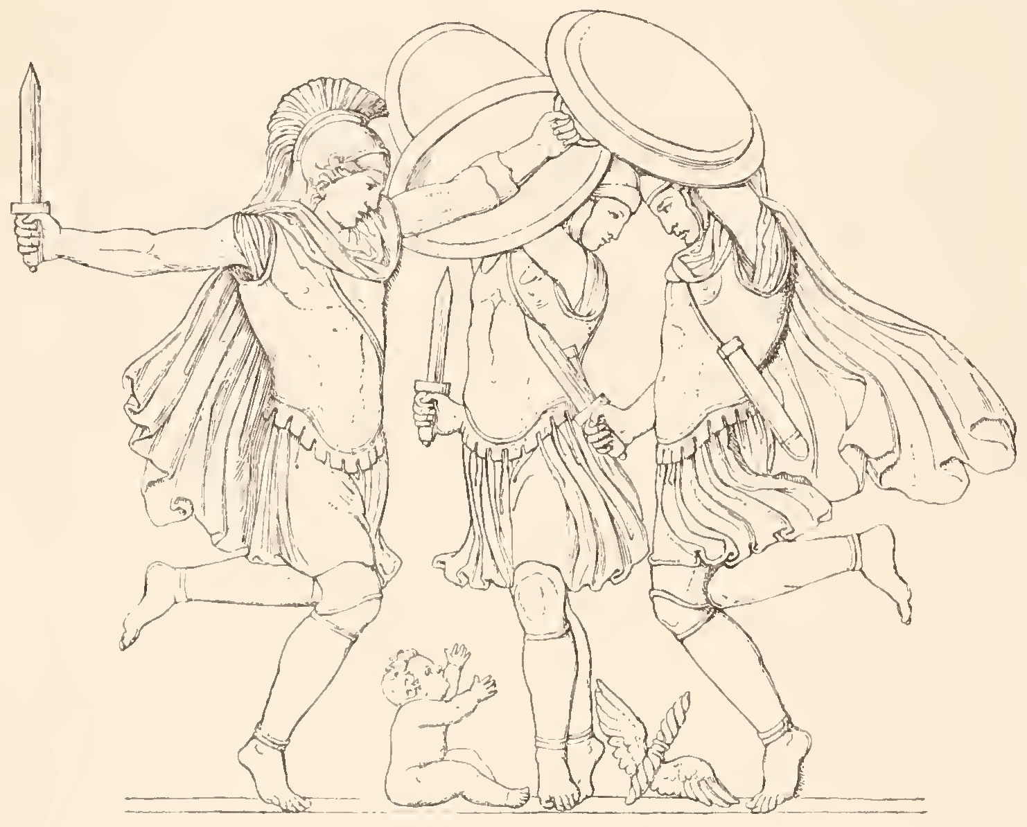 Author: Roscher, Wilhelm Heinrich, 1845-1923 Volume: 2:1 Subject: Mythology -- Dictionaries, German; Mythology, Classical -- Dictionaries, German Publisher: Leipzig, B. G. Teubner Language: German Call number: B14591261 Digitizing sponsor: Wellesley College Library Book contributor: Wellesley College Library Collection: americana; blc Notes: Pages are divided into columns, with 2 page numbers on each page. Scanfactors: 6